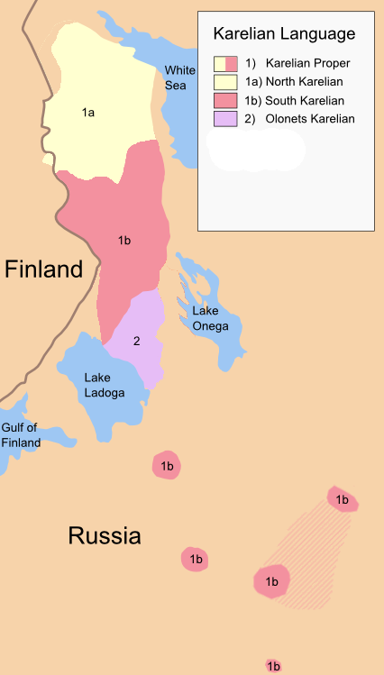 Map of Karelian dialects before the second World War. Map has present-day borders of Finland.